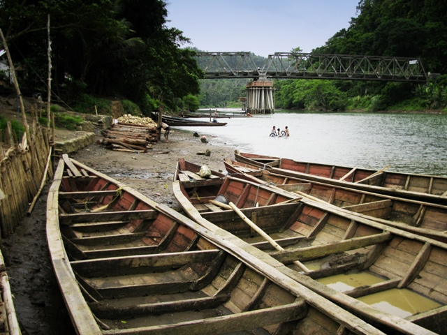 Taken at Ujunggenteng, on the way to hidden paradise, Cikaso waterfall.